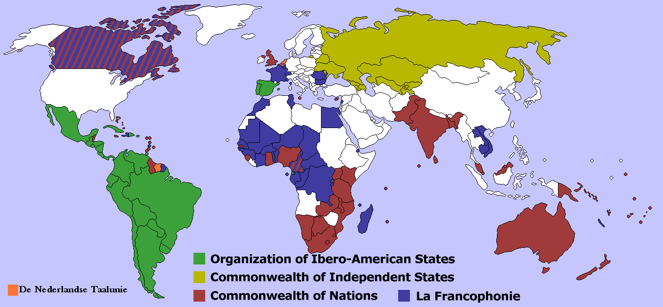 Five international organizations whose membership largely follows the pattern of previous colonial empires.